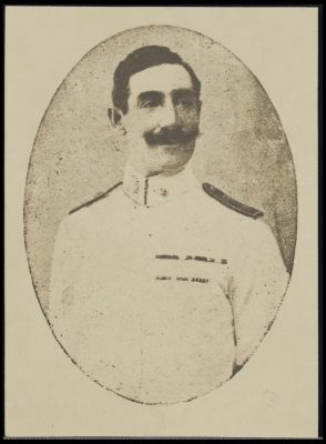 Angelo Levi Bianchini